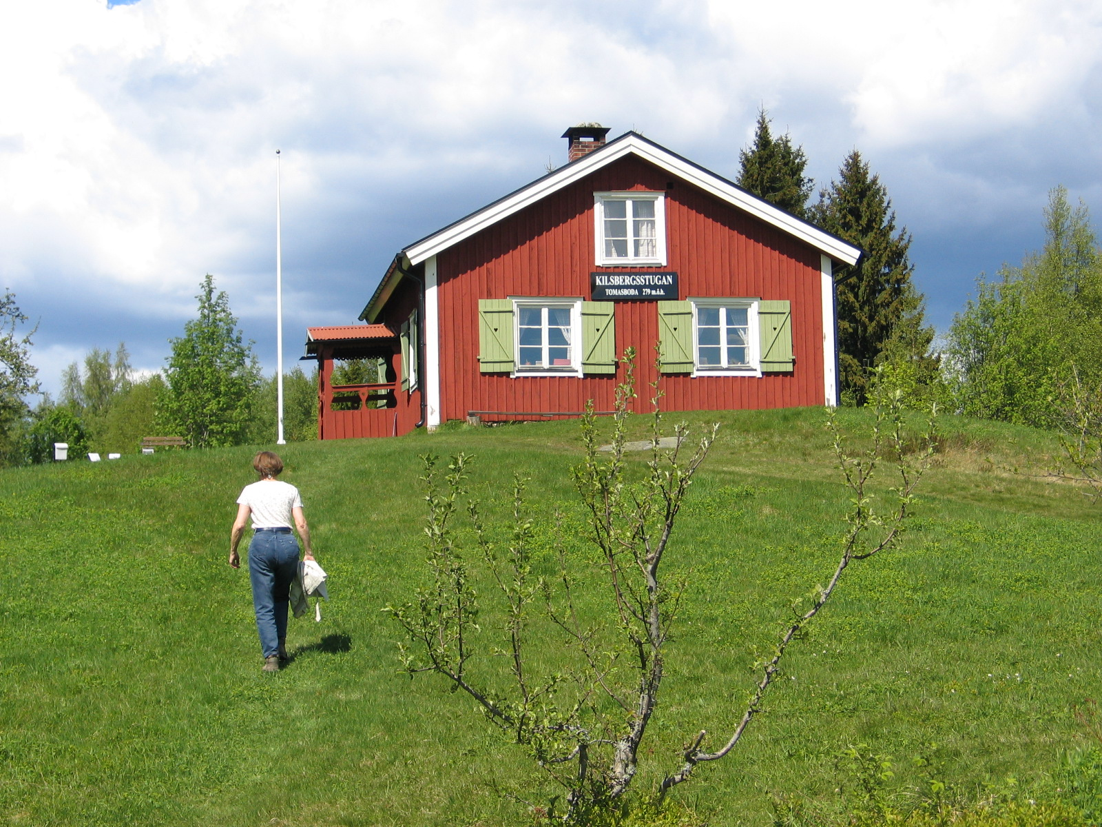 Tomasboda cottage in Kilsbergen mountains outside Örebro. Sweden